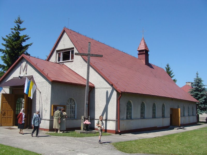 Church in Nadolna (Szydłowiec county; Poland)